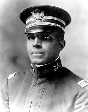 Captain Charles Young, 9th U.S. Cavalry, acting superintendent of Kings Canyon National Park, 1903. "Black" cavalry regiments, the so called "Buffalo Soldiers", from the Presidio of San Francisco controlled the three National Parks in the Californian Sierra Nevada until the National Park Service was founded in 1916